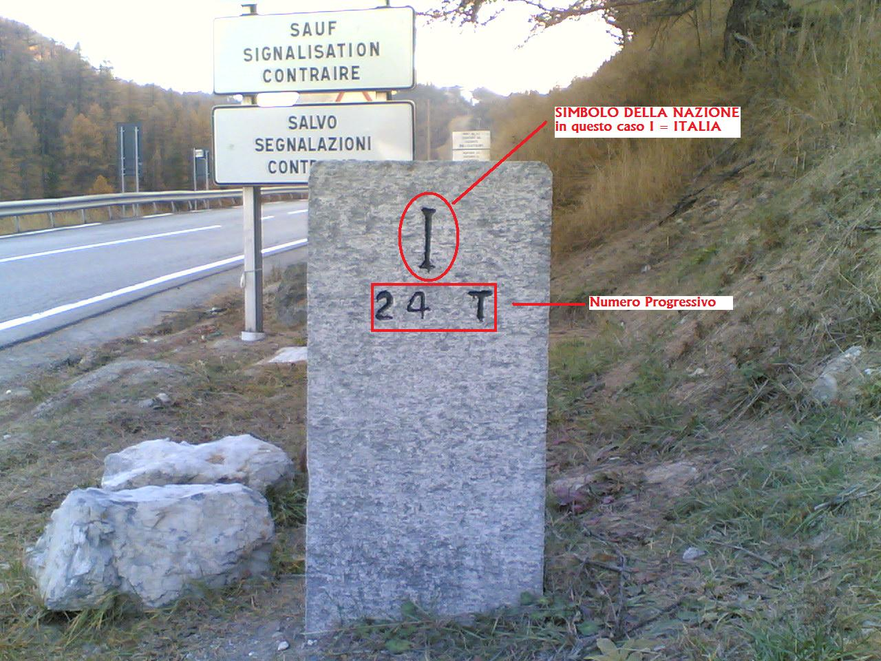 Photo of the border milestone n°24 between Italy and France (1975) close to the village of Claviere (I). This is the italian side. This milestone was put after the creation of the new borders between Italy and France (1974).